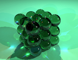 Simple Cubic Crystal Lattice Image generated by Wikityke